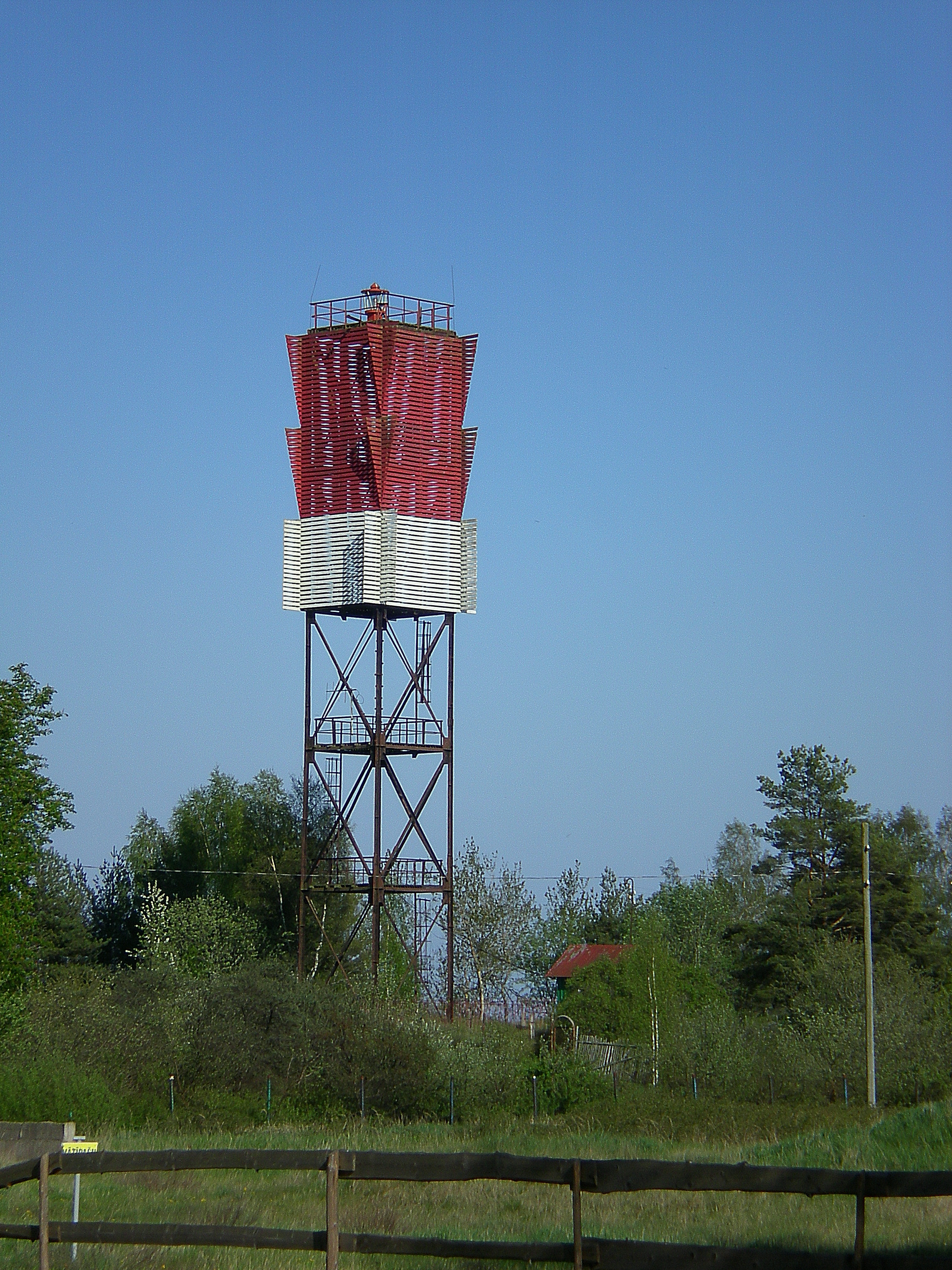 Ģipka lighthouse